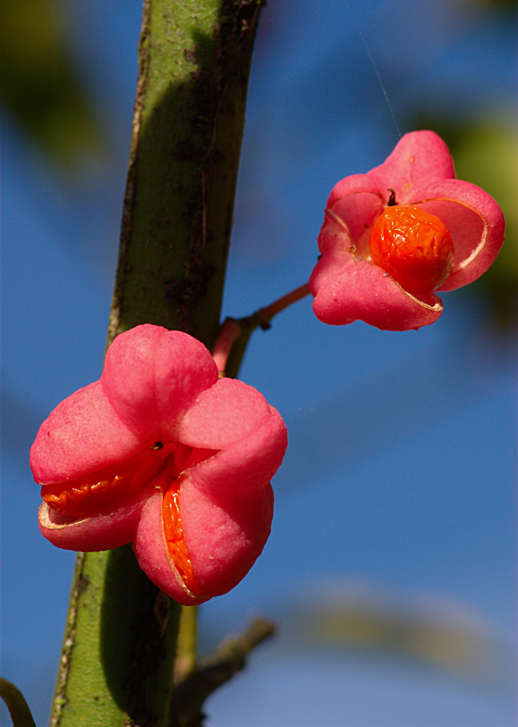 Euonymus europaeus taken in Calvados, French.